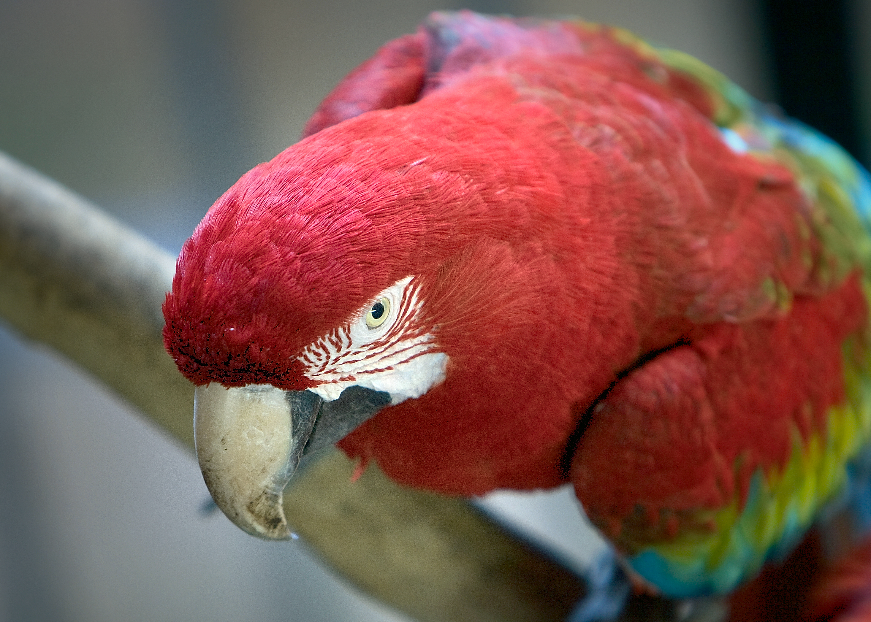 Green-winged Macaw (also known as the Red-and-green Macaw) at the Buenos Aires Zoo.